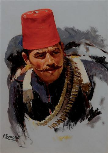 Ottoman Soldier during the Battle at Domokos.